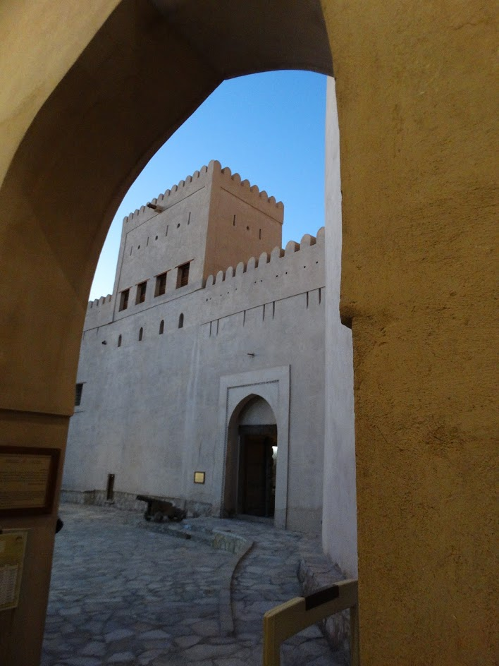 Nizva fort